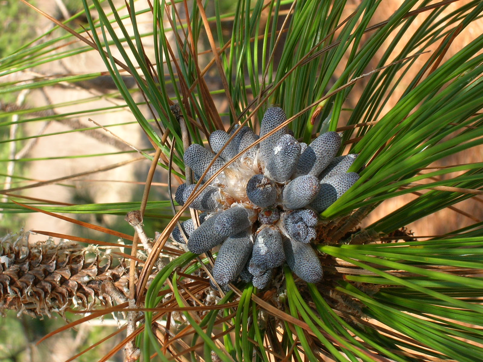 Pollen cones on a Longleaf Pine Pinus palustris, 5 km NE of Fanning Springs. Florida.